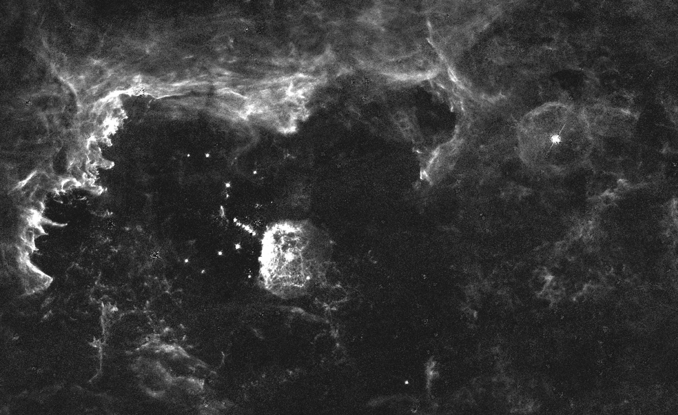 Hubble Space Telescope image of the Quintuplet Cluster region. The Pistol Star is seen in the middle, surrounded by its ejection nebula. The luminous blue variable (LBV) star G0.120−0.048 is at the upper right, surrounded by a spherical nebula, believed to have been ejected by that star. LBV qF362 to the left of the Pistol Star also seems to be surrounded by a low-level nebular emission.